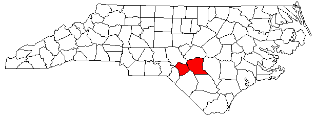 Map of North Carolina highlighting the Fayetteville Metropolitan Area; created with the GIMP. Made by User:Acntx.